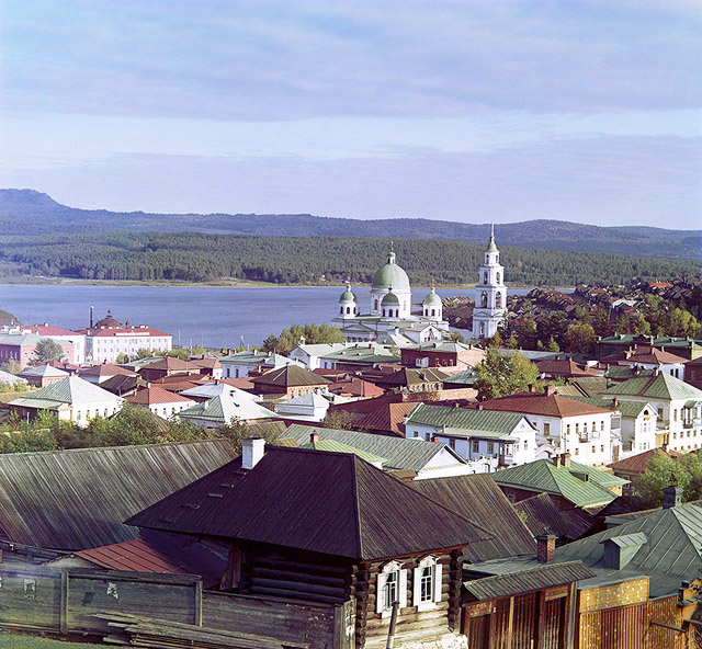 View of Zlatoust, ca. 1912.